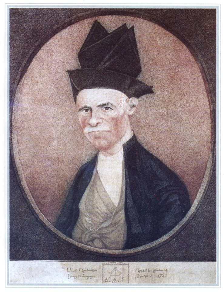 Shahamir Shahamiryan/1723-1799/ Indian-Armenian prominent politician and public figure